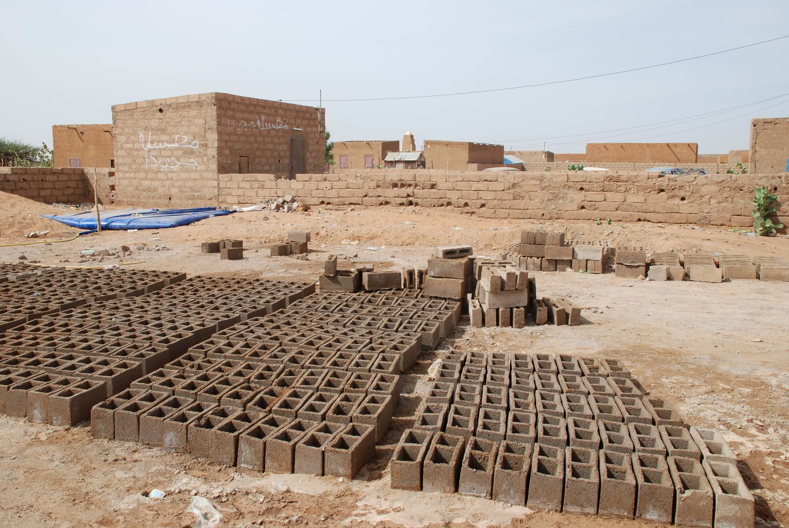 Akjoujt, Mauritania, building blocks